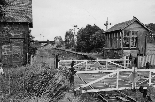 Balfron Station (remains), Near to Boquhan, Stirling, Great Britain. View NE, towards Aberfoyle and Stirling. Lines used to run from Balloch, and from Glasgow by a roundabout route via Lenzie Junction and Strathblane, to Aberfoyle and to Stirling via Kippen, but were early casualties to the buses and the motor car: the line from Balloch and Buchlyvie to Stirling closed (to passengers) as early as 1/10/34, that to Aberfoyle on 29/9/51, but all remained open for goods traffic until 1/10/59. Balfron station was over a mile west of the Balfron village - but right by the A81 road. However, the station was still almost intact here in 1961, and the signalbox apparently still in use - which is strange.